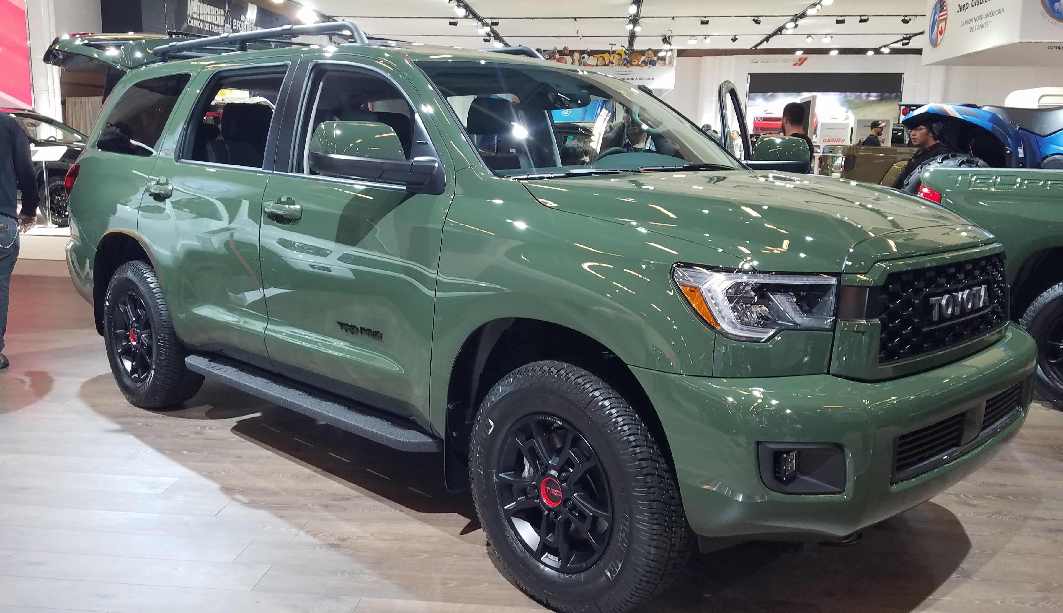 2020 Toyota Sequoia photographed in Montreal, Quebec, Canada inside the 2020 Montreal International Auto Show.